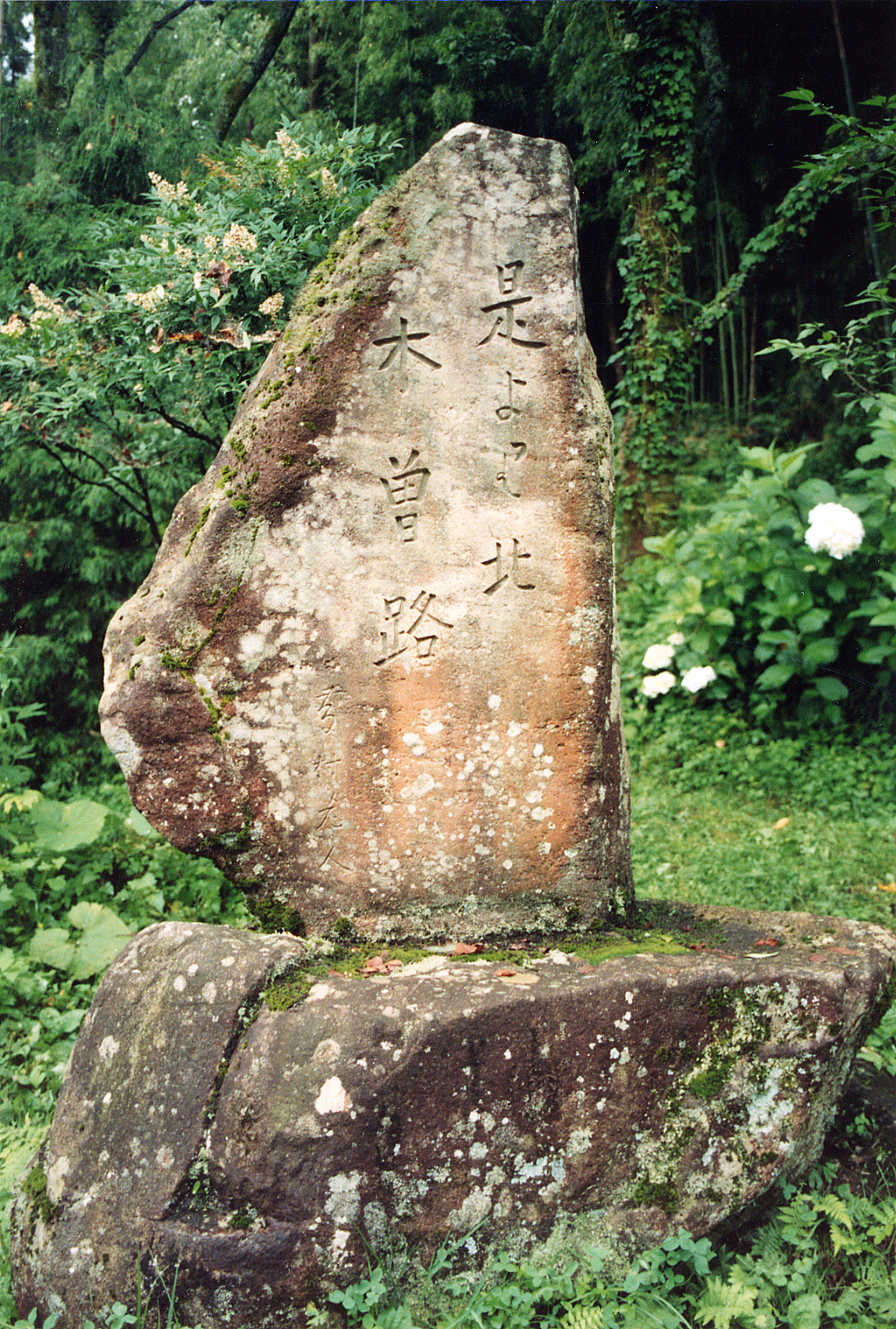 "From here north is Kisoji." Marker in the Kiso region of Nagano Prefecture, Japan.